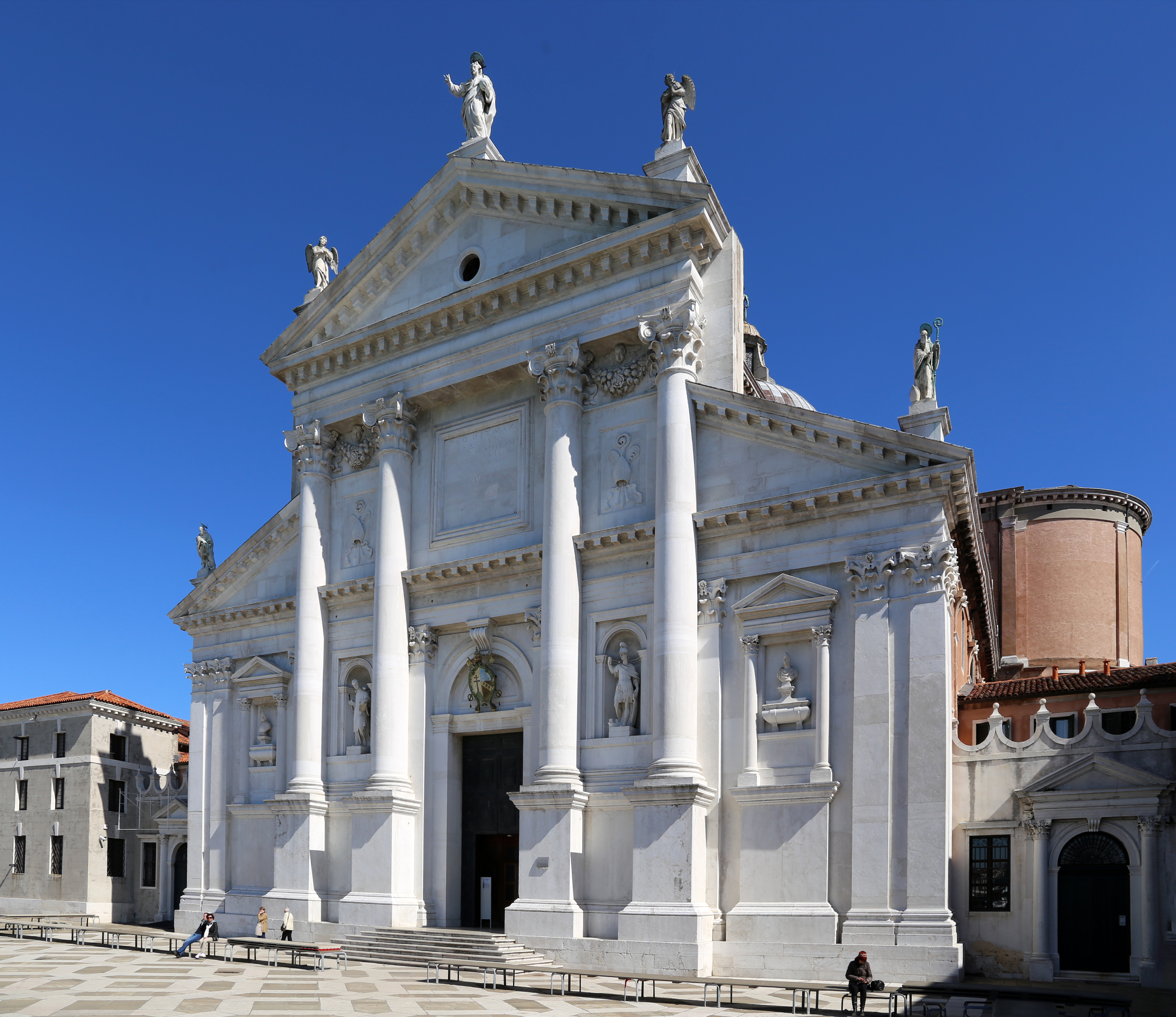 Exterior of San Giorgio Maggiore (Venice)